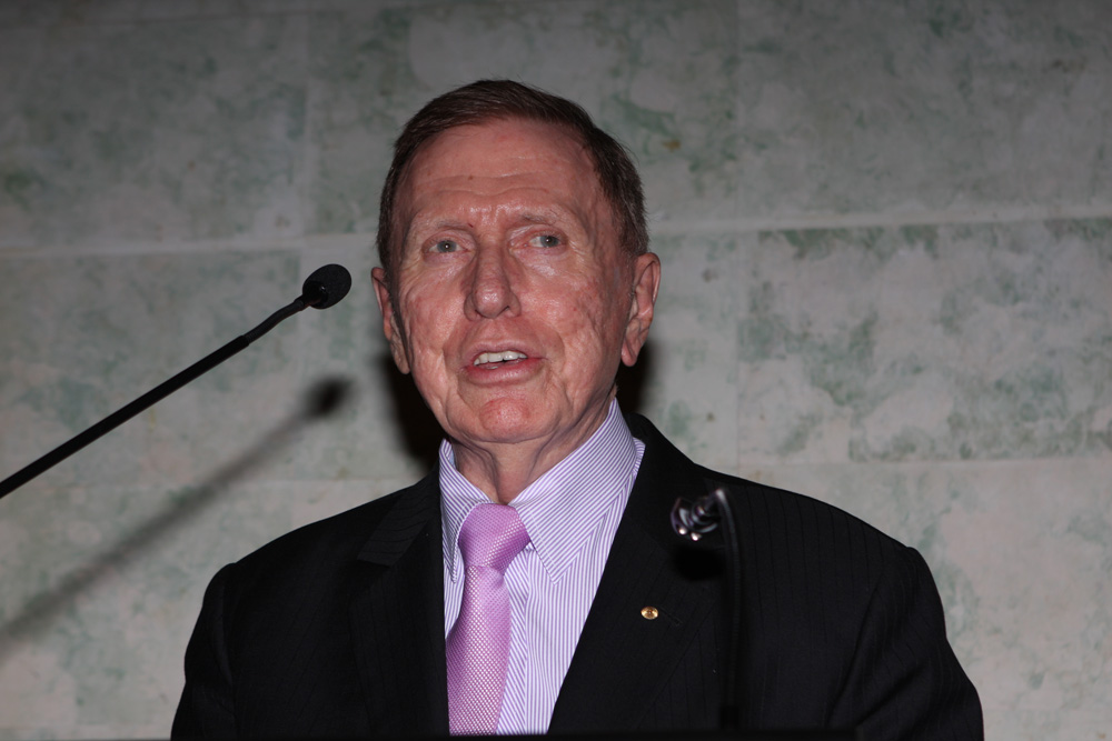 Michael Kirby (judge) speaks at the 'War Is Over! (if you want it) Yoko Ono' exhibition - Sydney, Museum of Contemporary Art